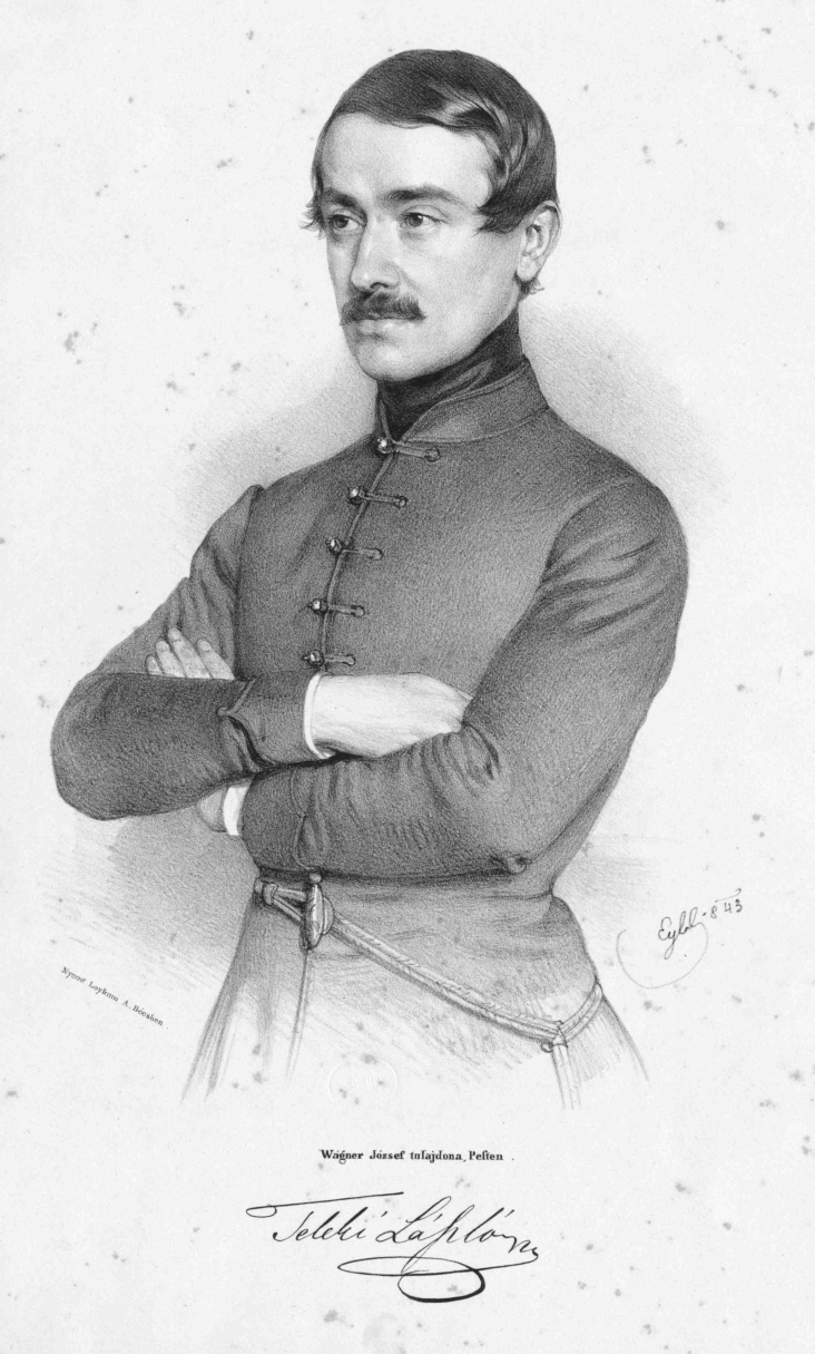 László Teleki 1811-1861